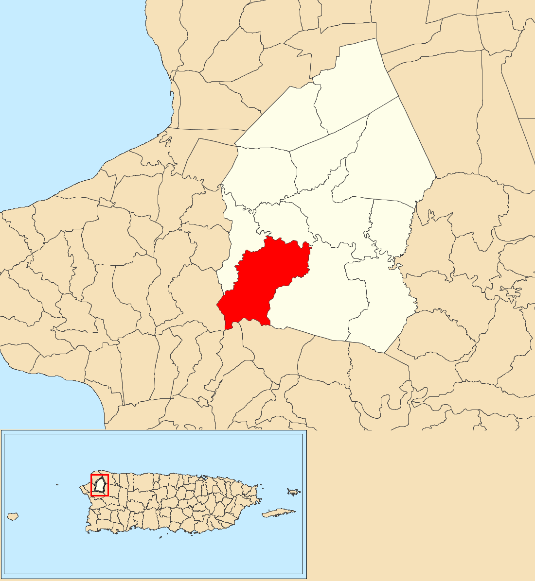 Naranjo, Moca, Puerto Rico locator map